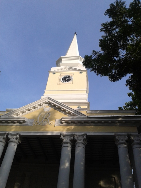 Saint Olav Church in Serampore, India